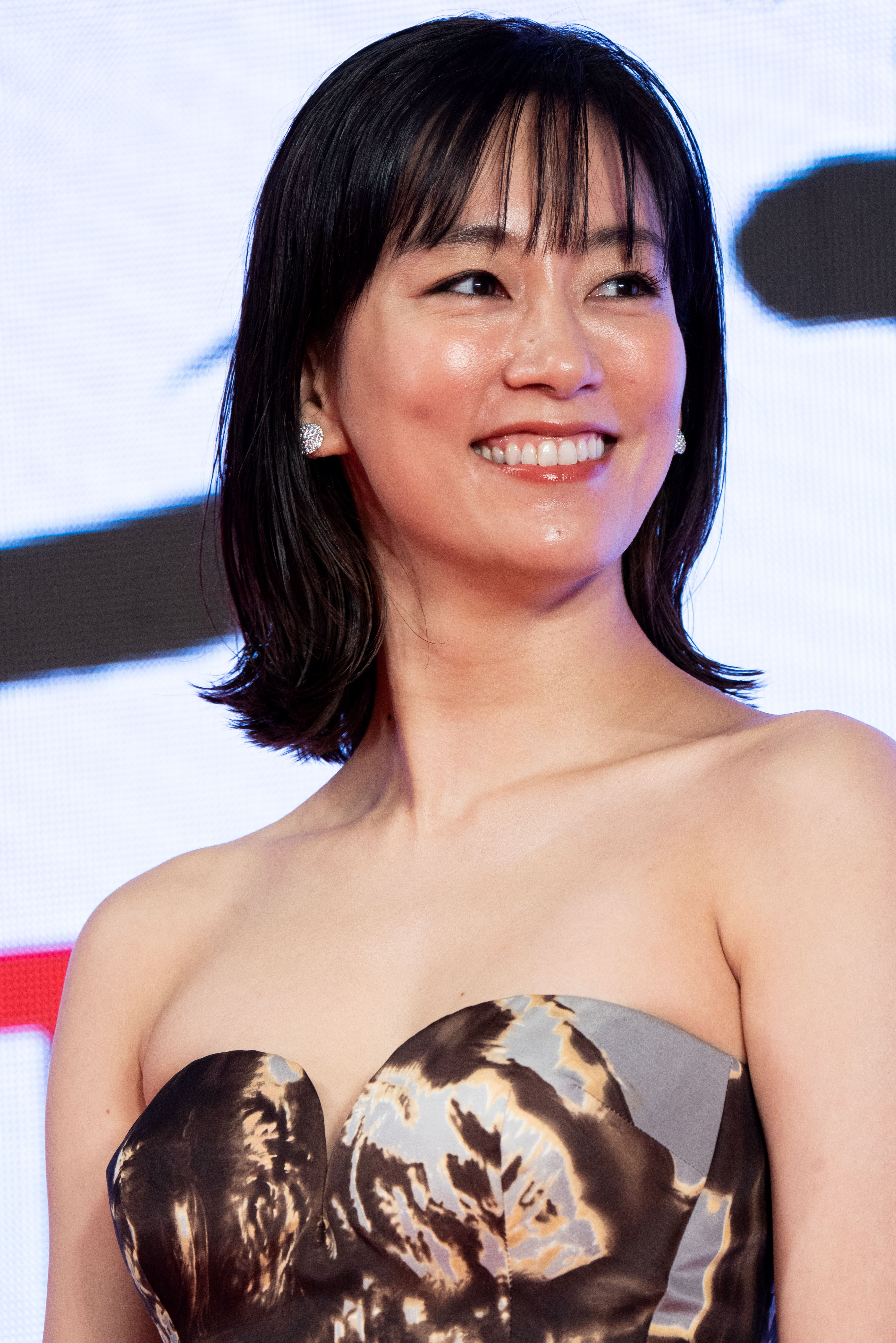 Asami Mizukawa from "A Beloved Wife" at Opening Ceremony of the Tokyo International Film Festival 2019